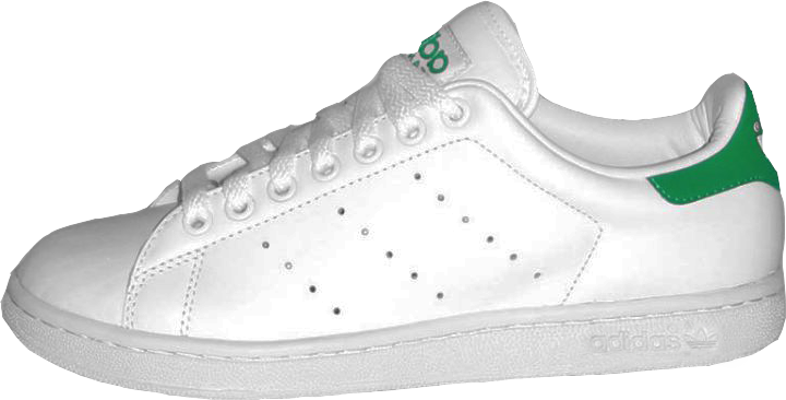 Adidas Stan Smith, original white and green version